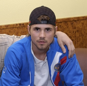 Dmitry Torbinsky in Domodedovo airport after away match with Croatia.